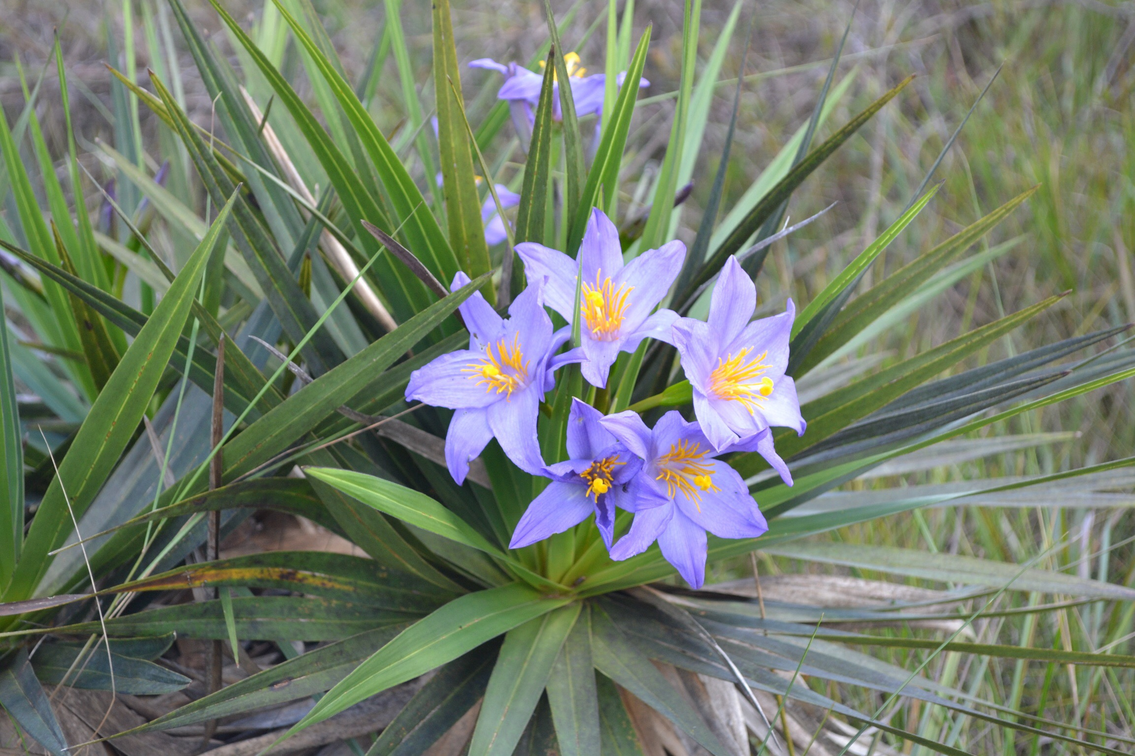 Photo taken of a species of Velloziaceae at Serra do Cipó in Minas Gerais